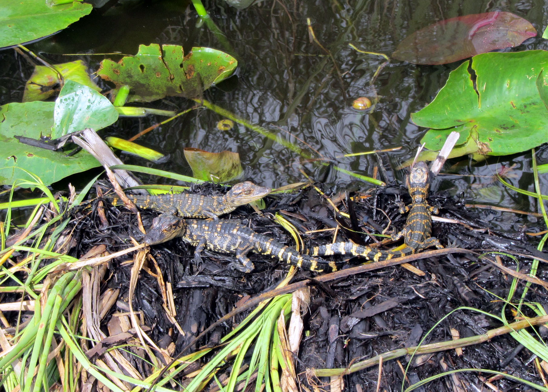 juvenil alligators mississippiensis (Everglades)